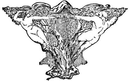 Frontpiece for "Evolution"